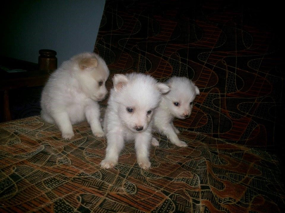 three pups